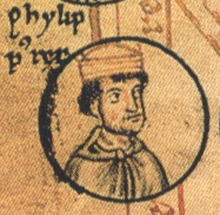 Philip I of France